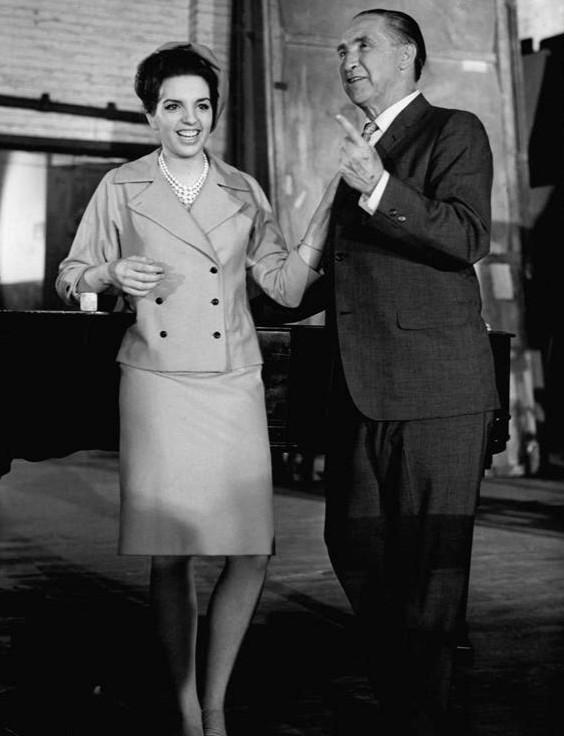 Photo of Horace McMahon as Hank McClure and Liza Minnelli in a guest-starring role as Minnie from the television program Mr. Broadway. The episode is "Nightingale For Sale".